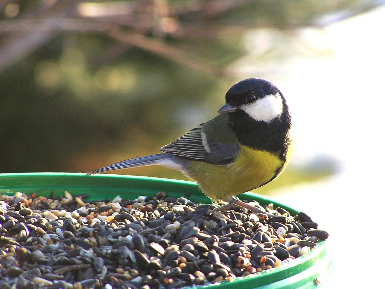 Great Tit Parus major, Bytom, Poland